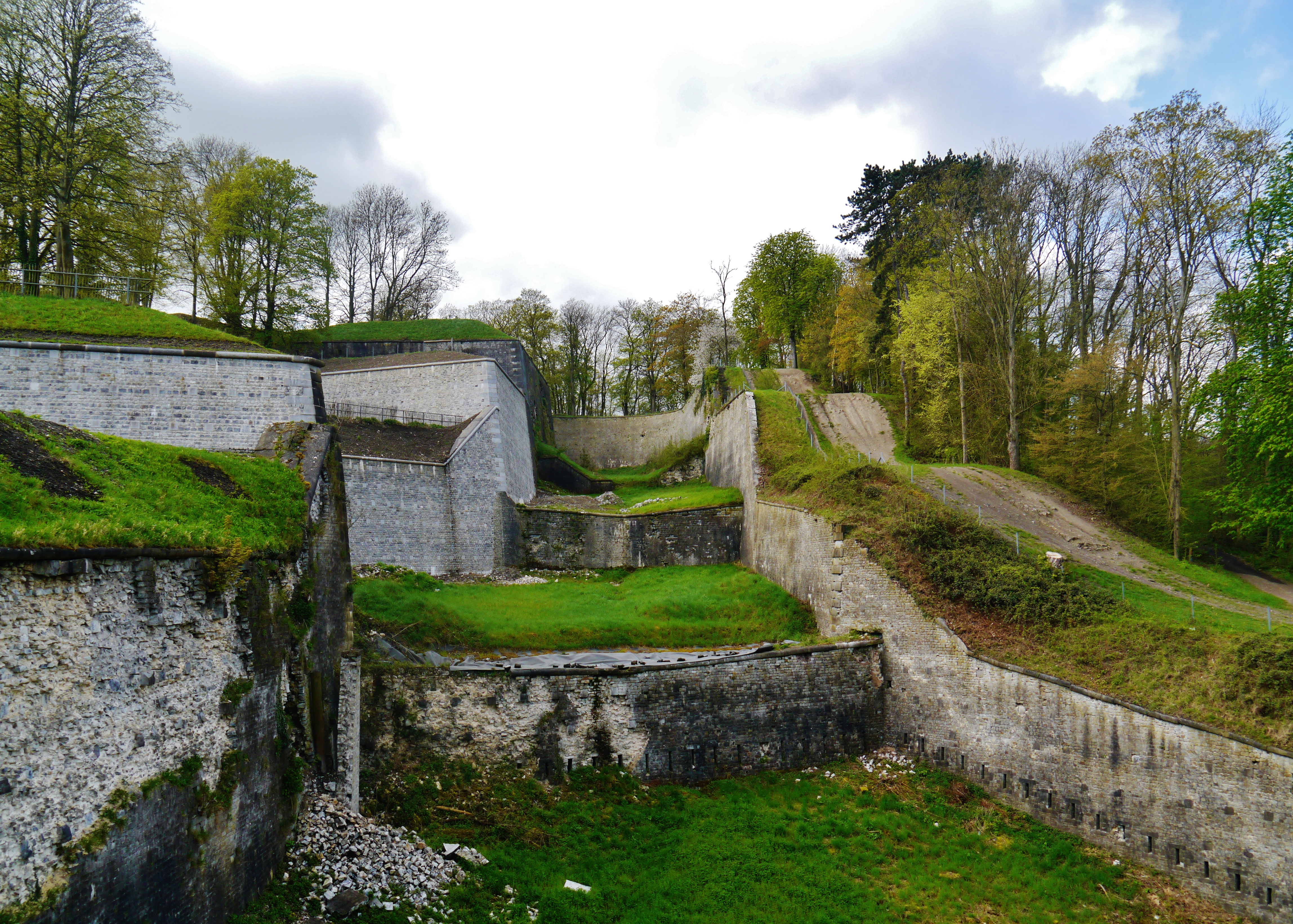 Citadel, Namur, Province of Namur, Wallonia, Belgium